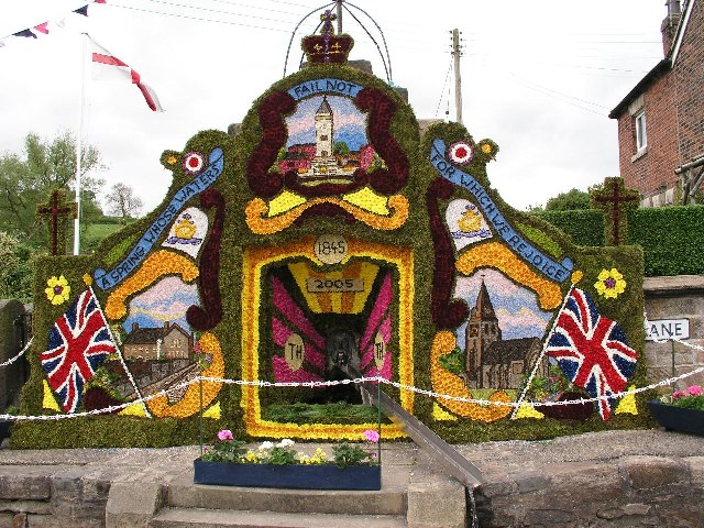 Endon - Well Dressing. The larger well in Endon - decorated for the 2005 "Well Dressing" festival.